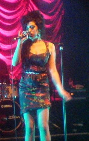 Amy Winehouse performing at KOKO in London, England (cropped)